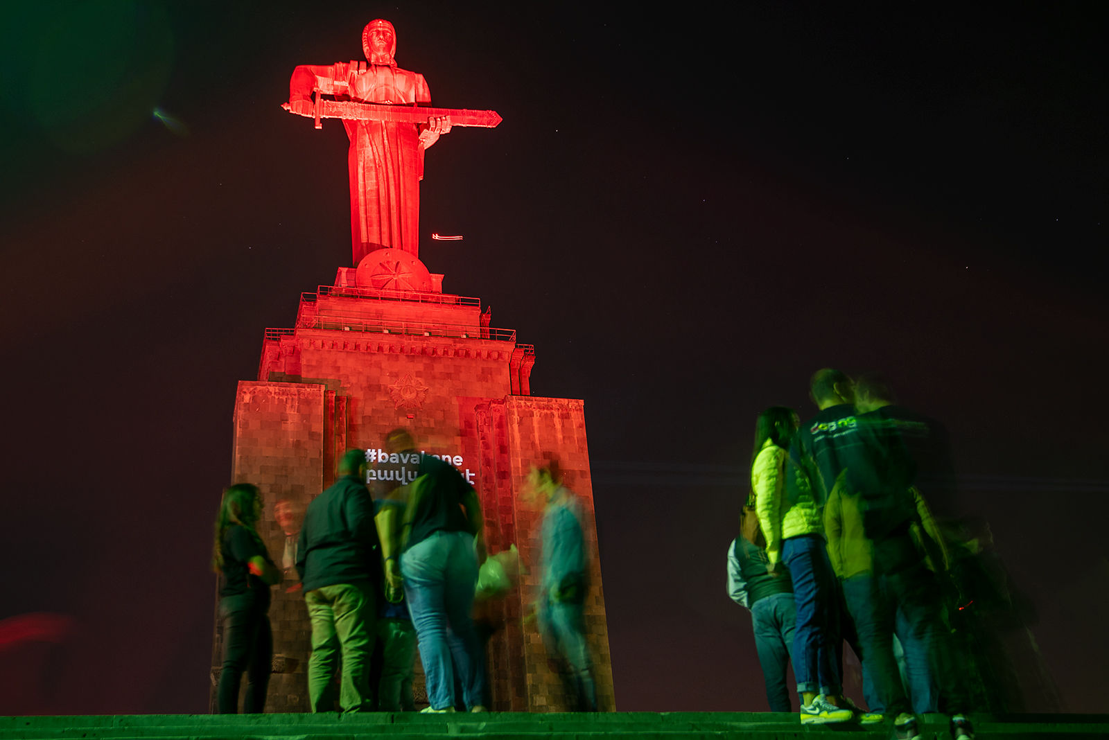 Red Mother Armenia, #Bavakane Social Campaign against sex-selective abortions in Armenia, October 11, 2019 Կարմիր Մայր Հայաստան, #Բավականէ սոցիալական արշավ ընդդեմ սեռով պայմանավորված հղիության արհեստական ընդհատումներին Հայաստանում, 11 հոկտեմբերի, 2019թ․։